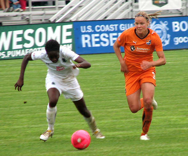 Laura Kalmari of the New Jersey Sky Blue FC.